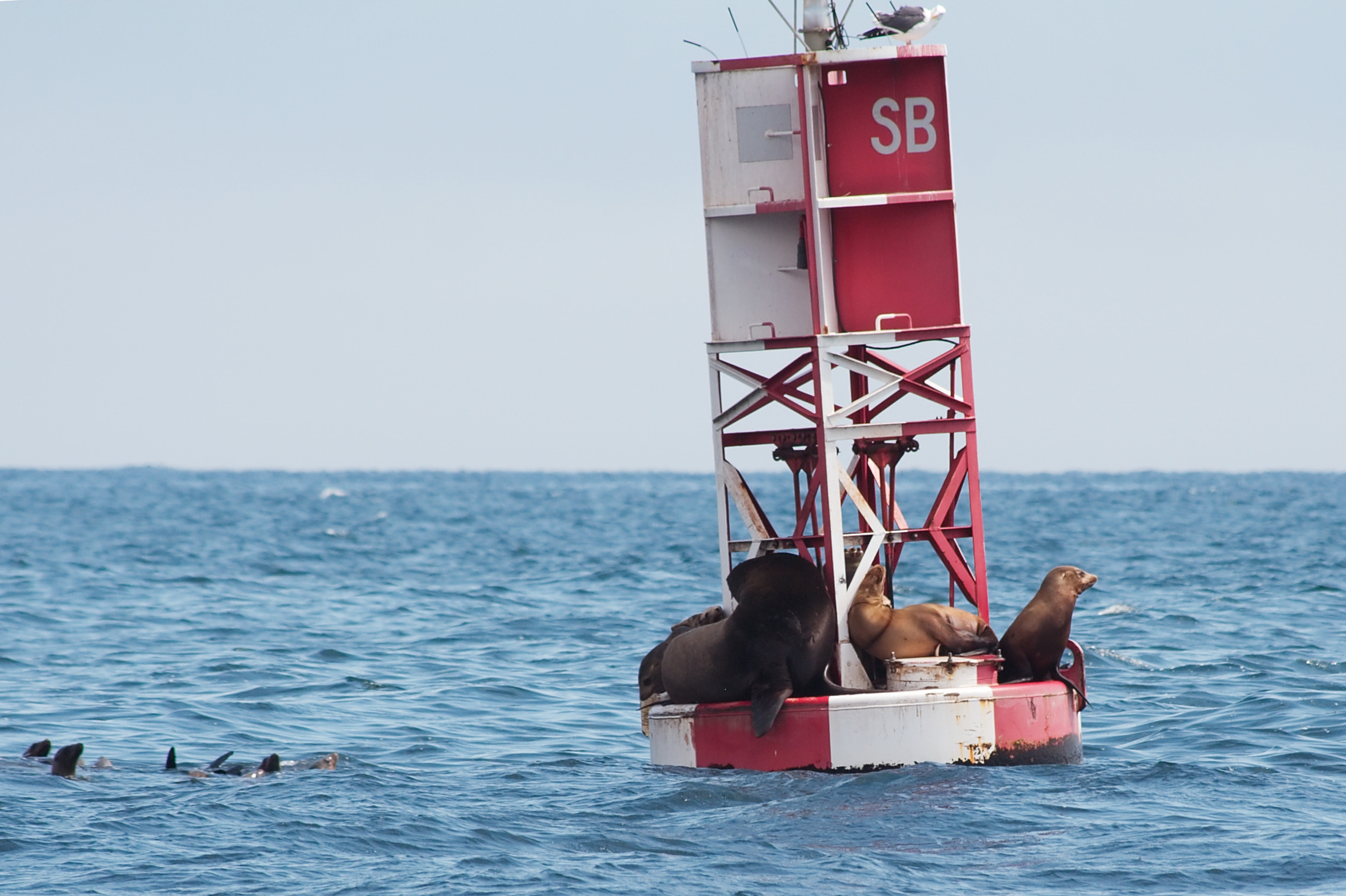 Sea lions (Zalophus californianus) in the Pacific Ocean, off the coast of Santa Barbara, California